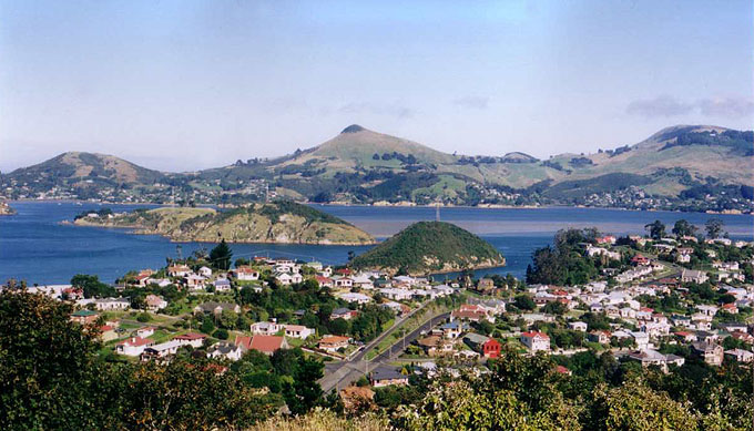 Otago Harbour, New Zealand. Port Chalmers in the foreground, Otago Peninsula in the background, Harbour Cone top centre. Vista de Otago Harbour